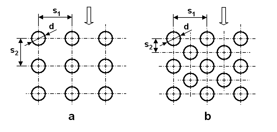 Tube bundles in heat exchangers.